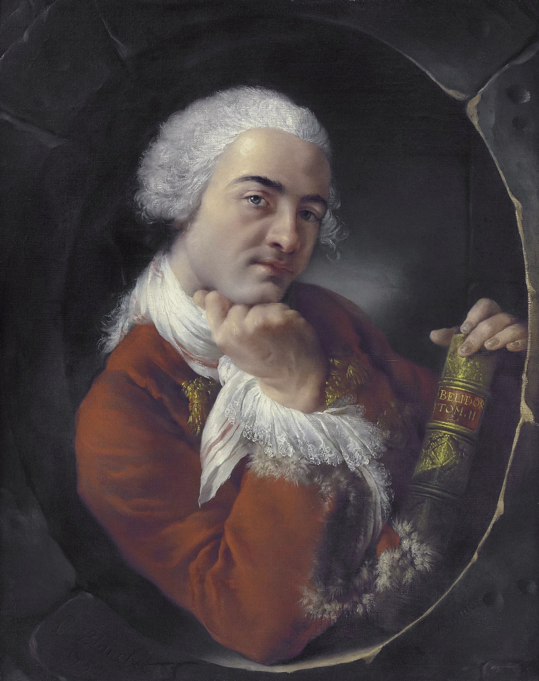 Bernard Forest de Bélidor (1698-1761) oil on canvas 74.3 x 61.6 cm signed b.l.: L. Blanchet / 1752 inscribed b.r.: pinxt. Rome inscribed c.r.: BELIDOR / TOM.II